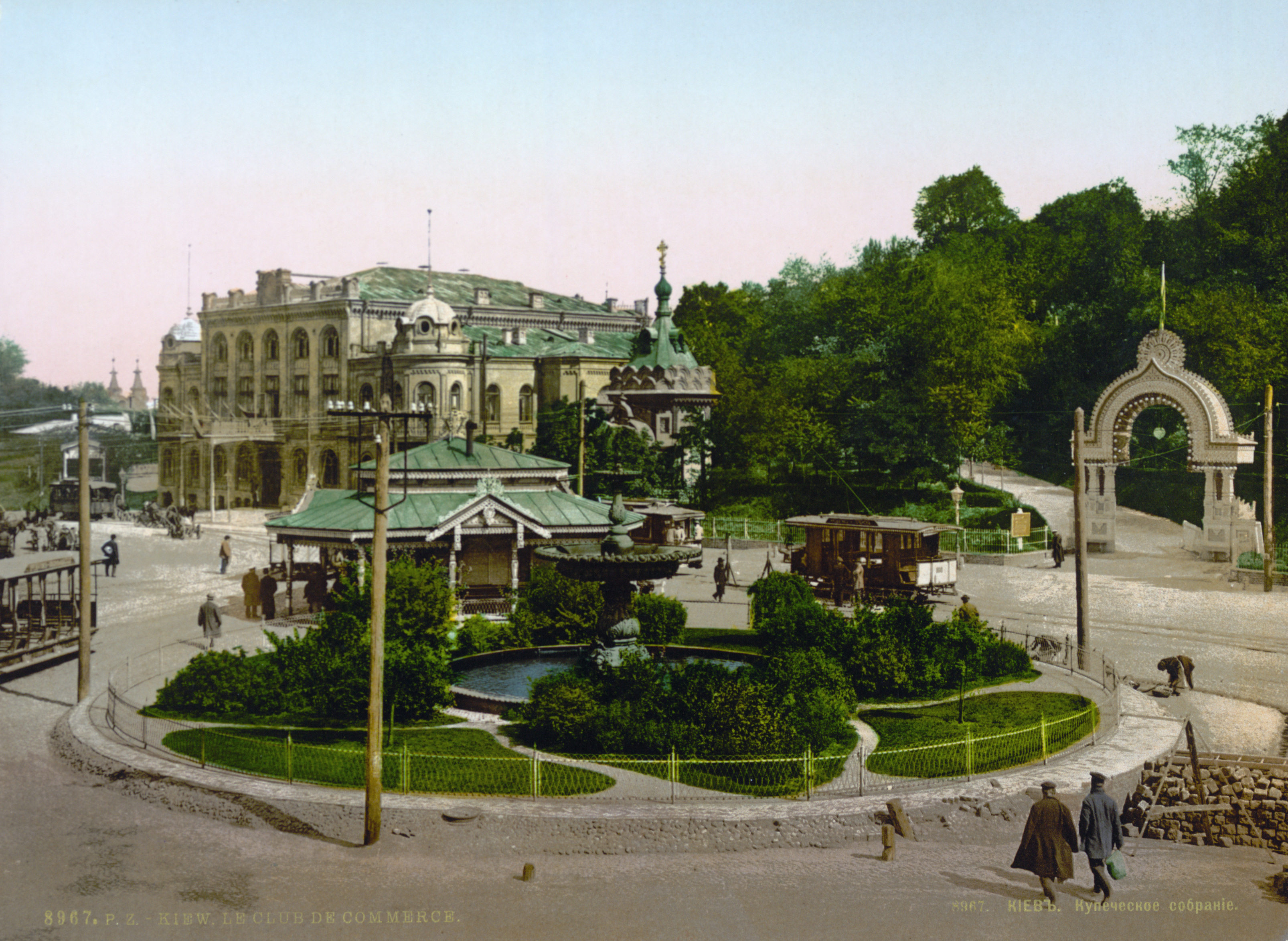 Old photochrome prints showing the Merchants Assembly building (now National Philharmonic Society of Ukraine concert hall) in Kiev, Russian Empire (now Ukraine). Print no. "8966"